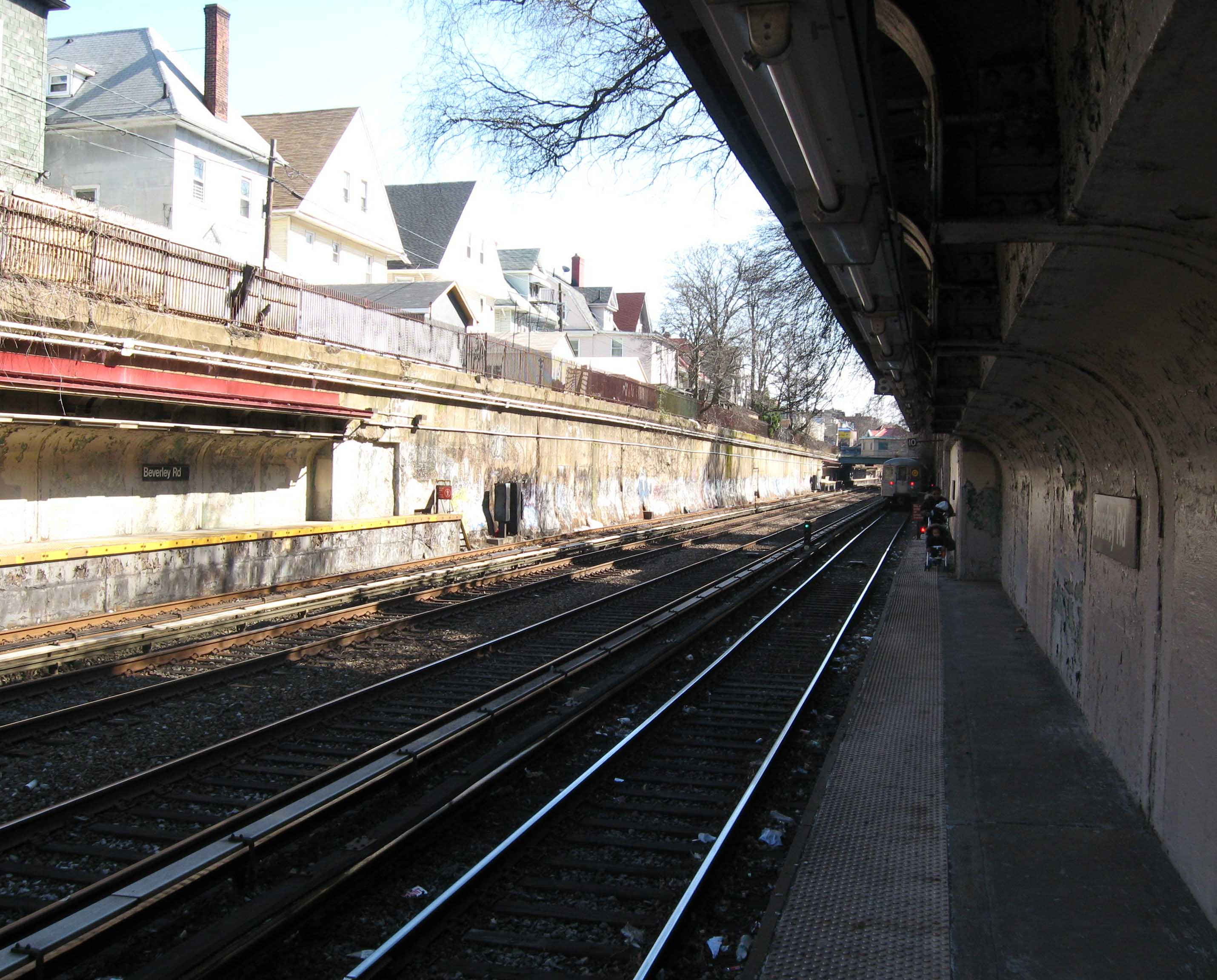 Looking south from Beverley Road towards Cortelyou Road station. I took this picture from the southbound platform.